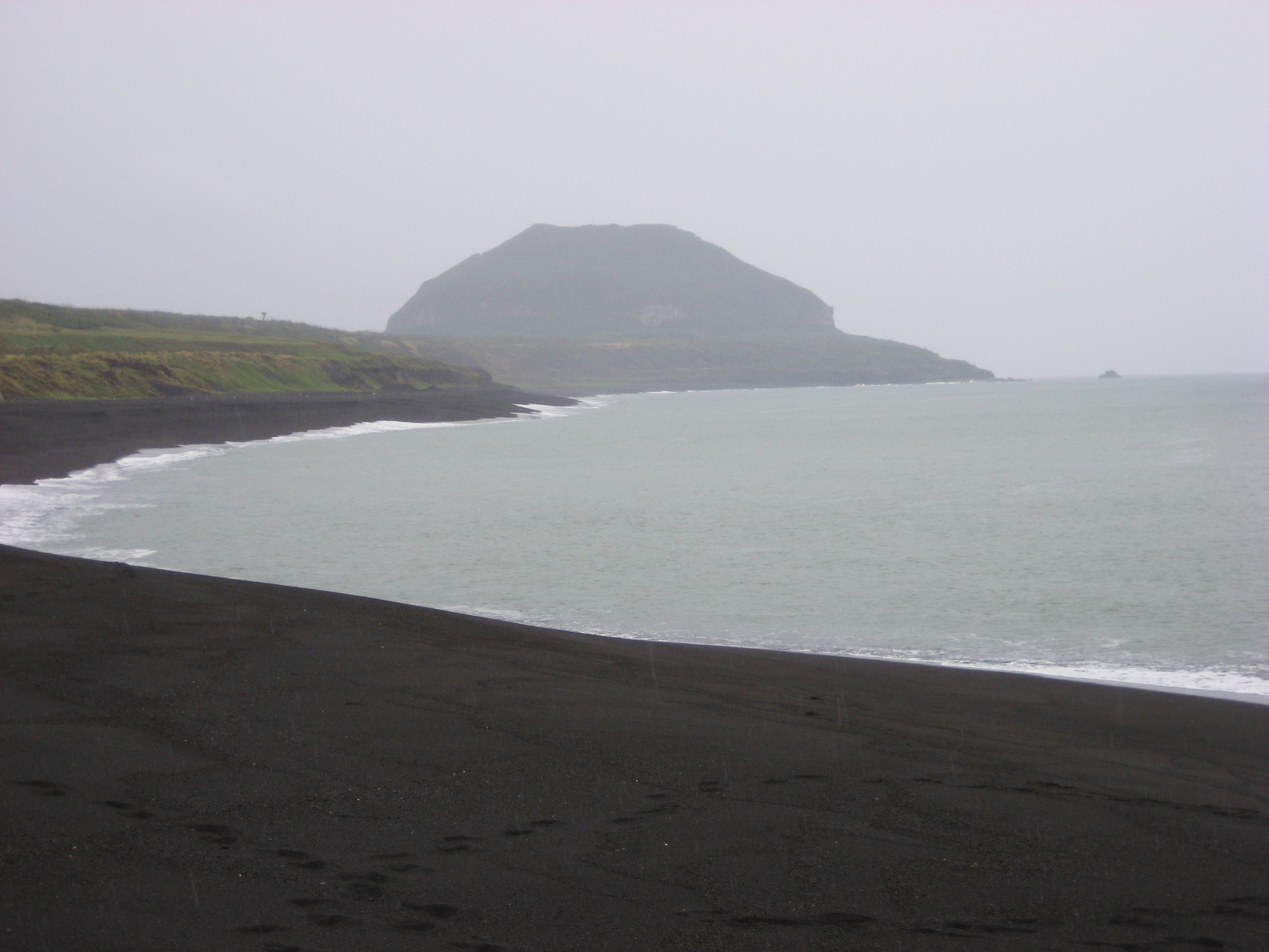 A view of Iwo Jima's Mount Suribachi on a cloudy day; looking south from a beach on the west side of the island.